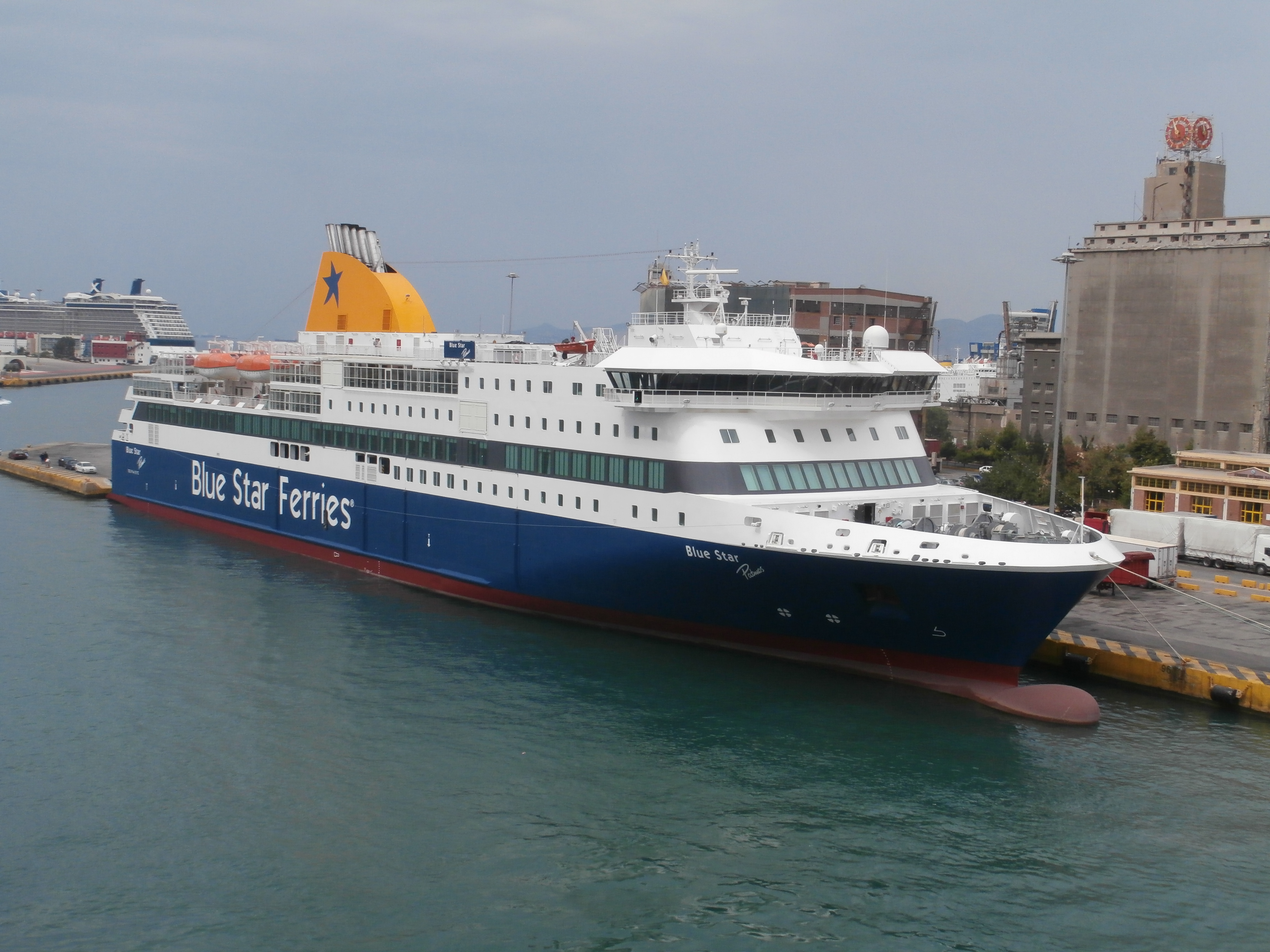 Blue Star Patmos in Pireas